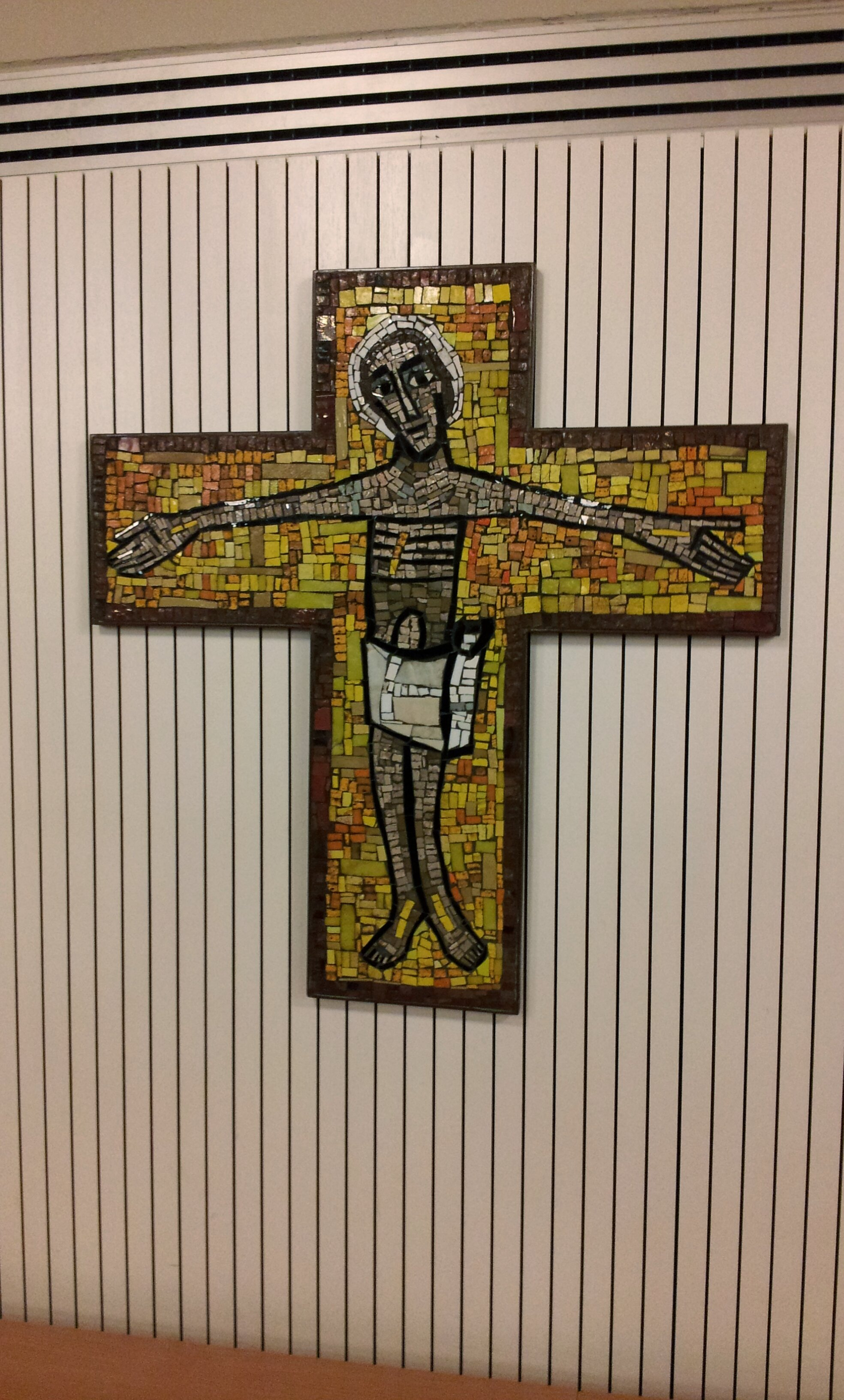 Sacral Mosaic depicting Jesus Christus in Holy Cross Church, Detmold, Germany